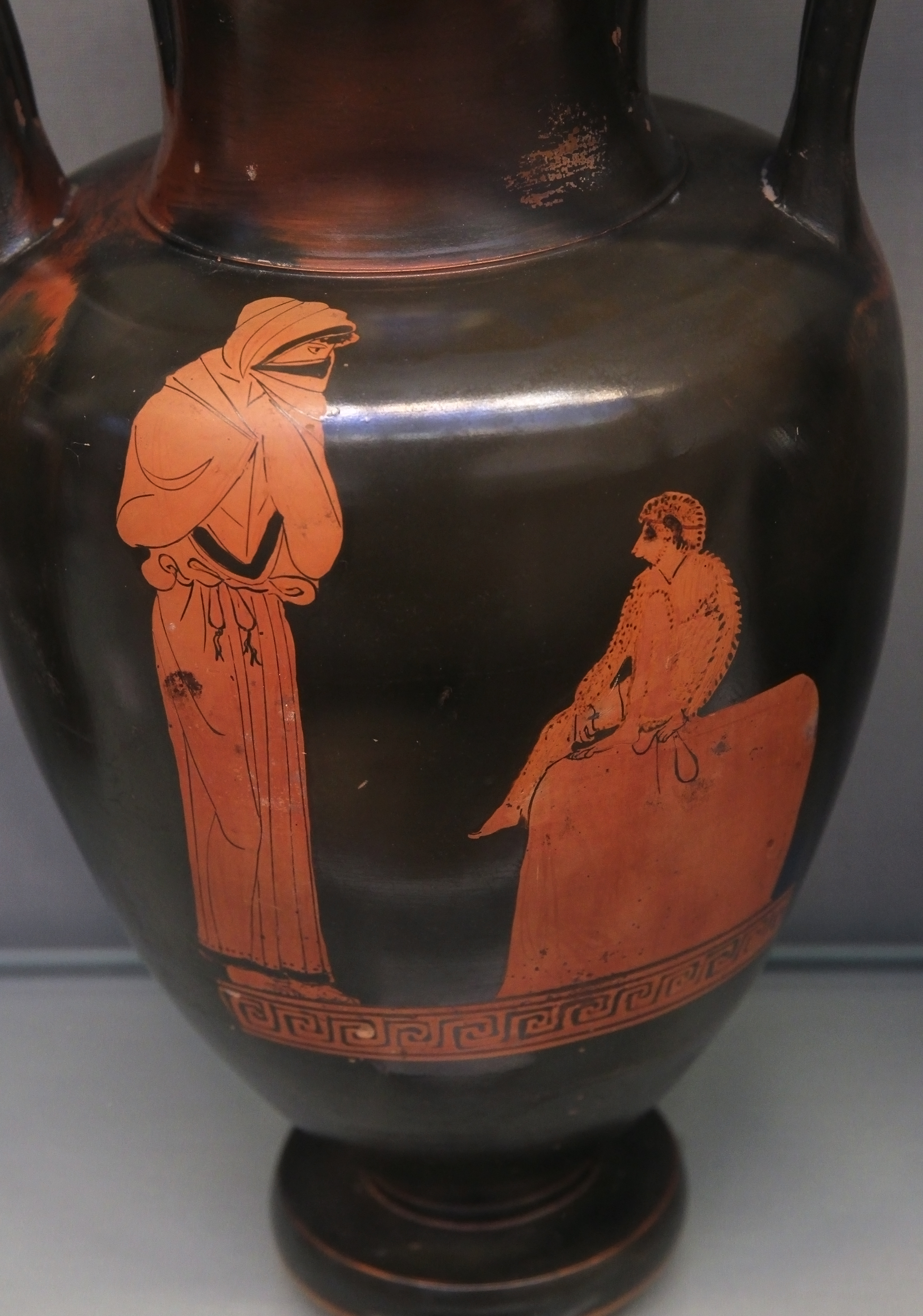 Woman and monkey, red-figure pottery, 470-450 BC. British Museum, room 20a. Found at Capua. GR 1873.8-20.364 ( E 307 ).